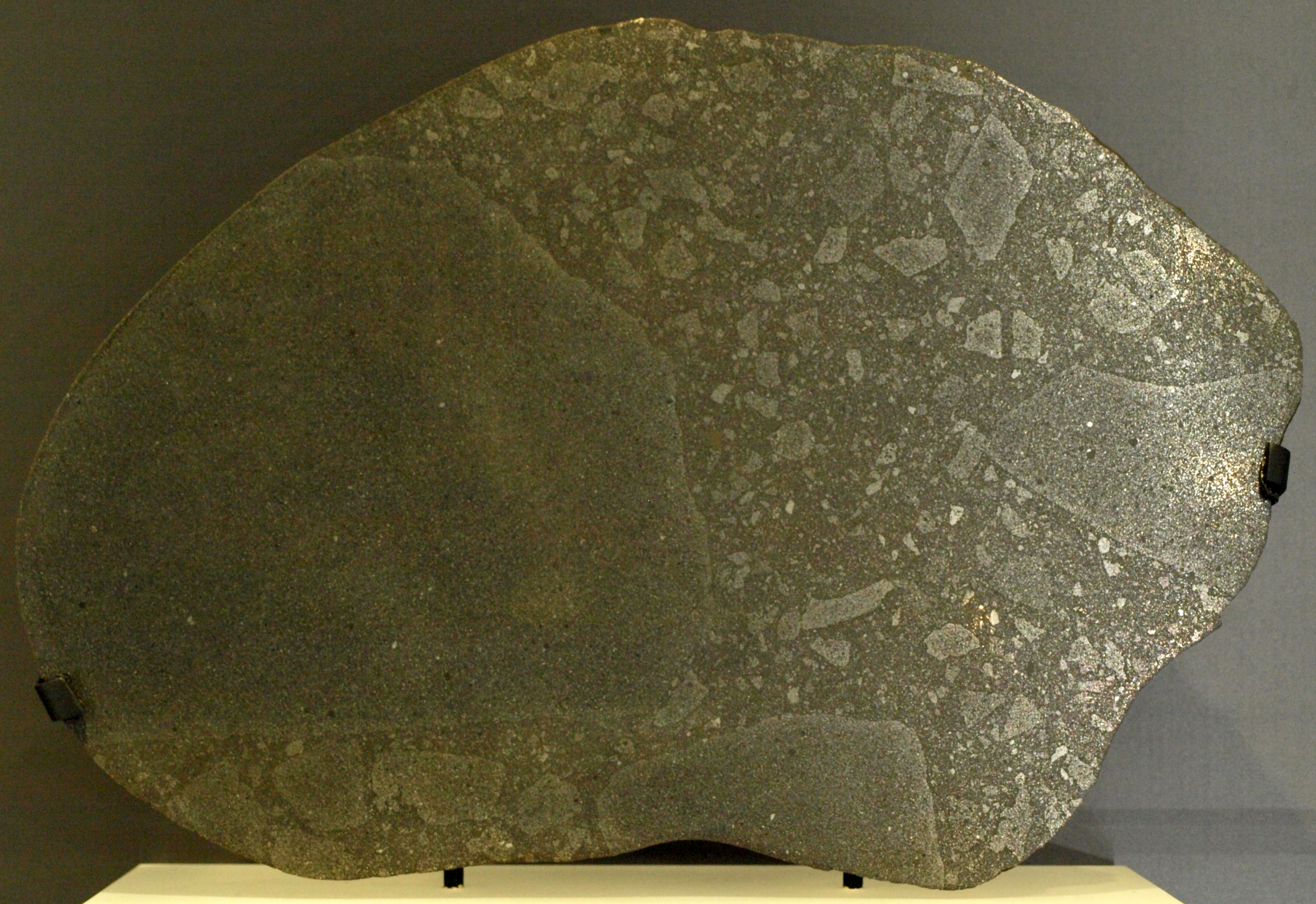 An example of an E-type Chondrite (from the Abee fall) on display in the Vale Inco Limited Gallery of Minerals at the Royal Ontario Museum.